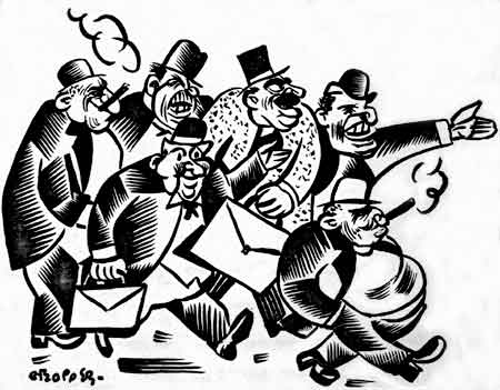 This political cartoon comes from the November 1926 issue of New Masses.